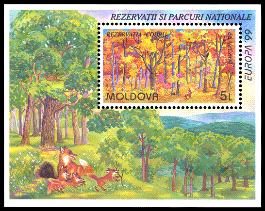 Stamp of Moldova